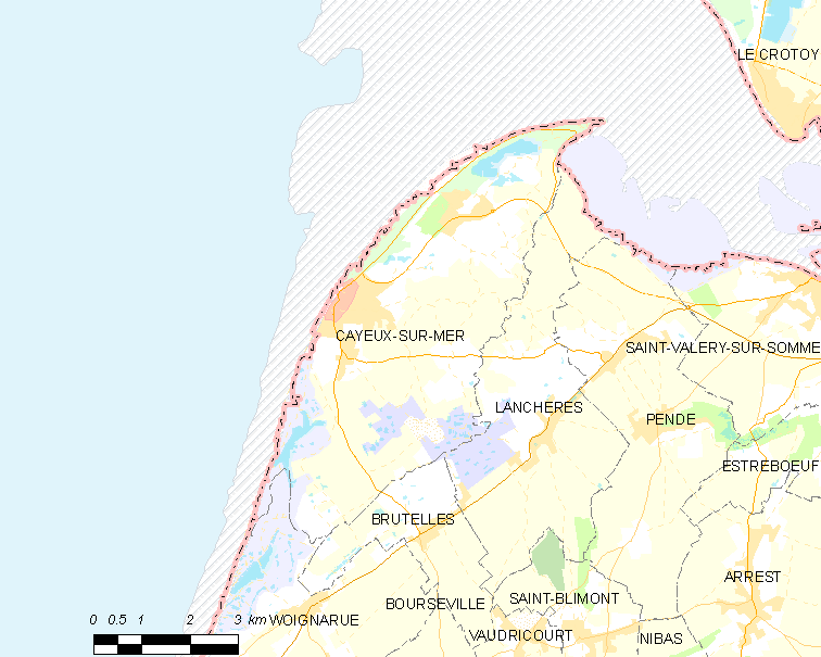 Map of French municipality Cayeux-sur-Mer